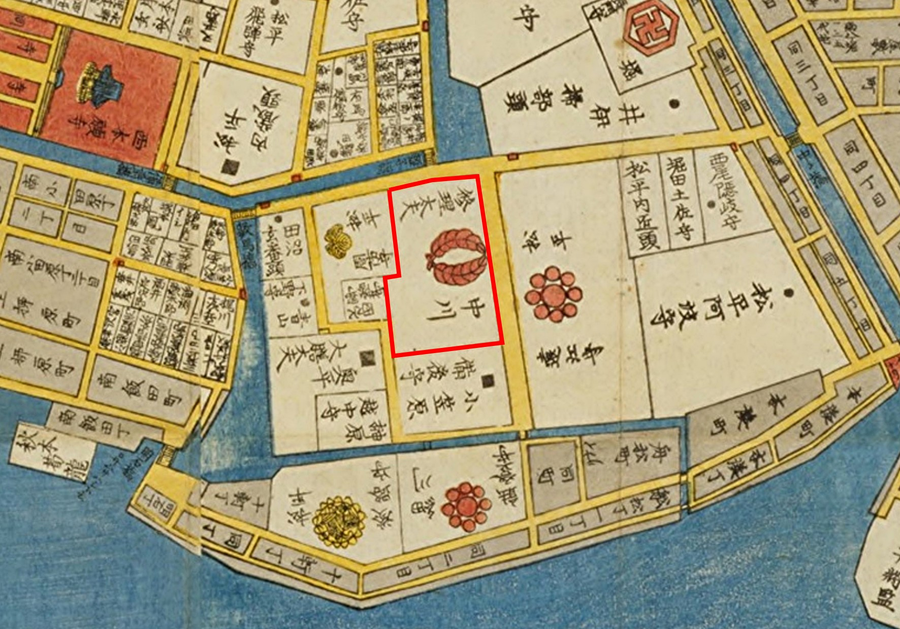 Residence of Nakagawa clan at Edo